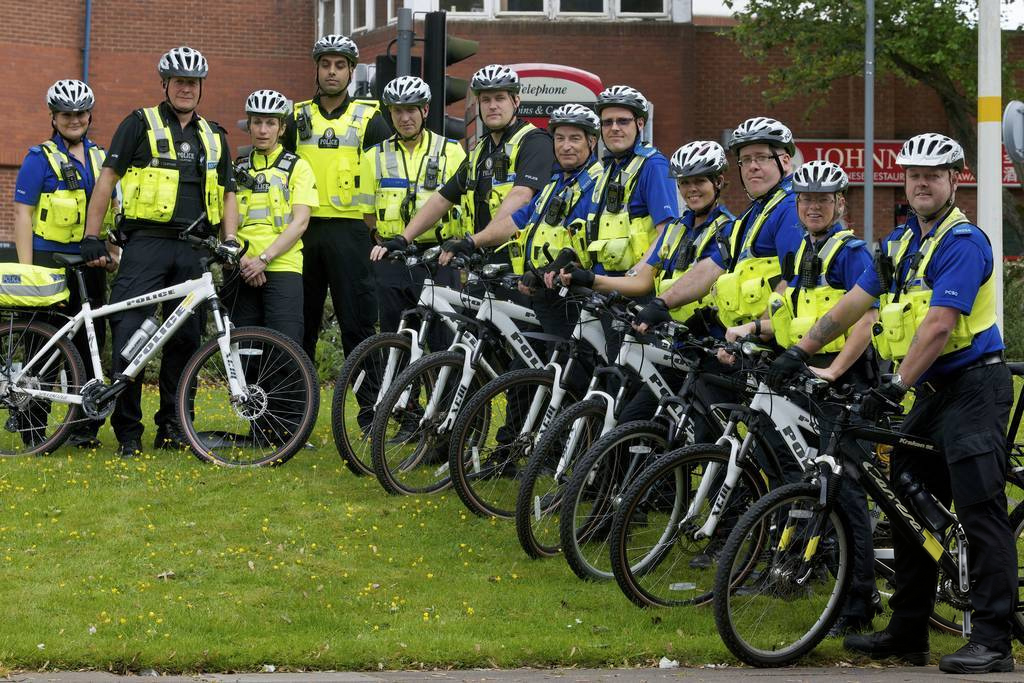 This photo shows some of the pedal cycles used by West Midlands Police neighbourhood officers to patrol across wasteland and parks. Cycles are also used by PCSO's and PC's to increase the speed of patrols and cover greater areas of their beat. This photo shows some of our officers from Birmingham North police.